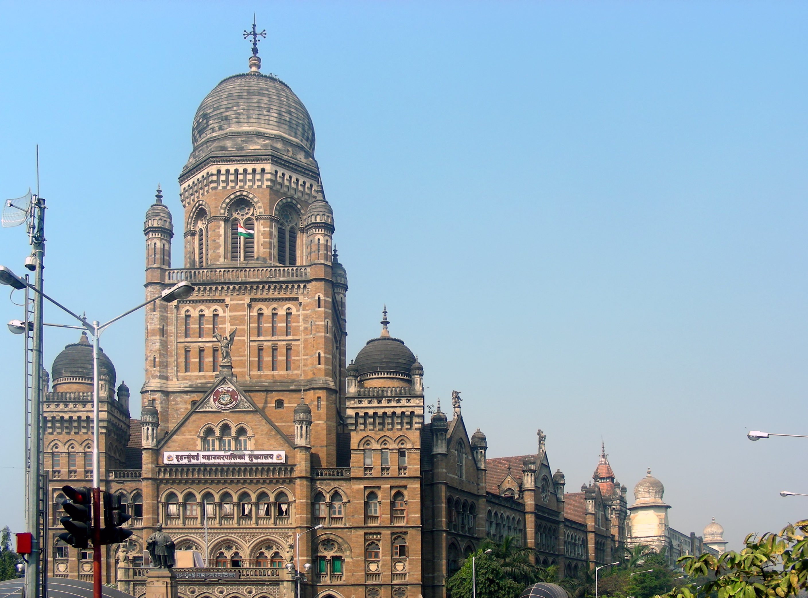 BMC Headquaters Mayur.thakare 04:58, 24 January 2007 (UTC)